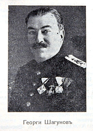 Bulgarian musician Georgi Shagunov